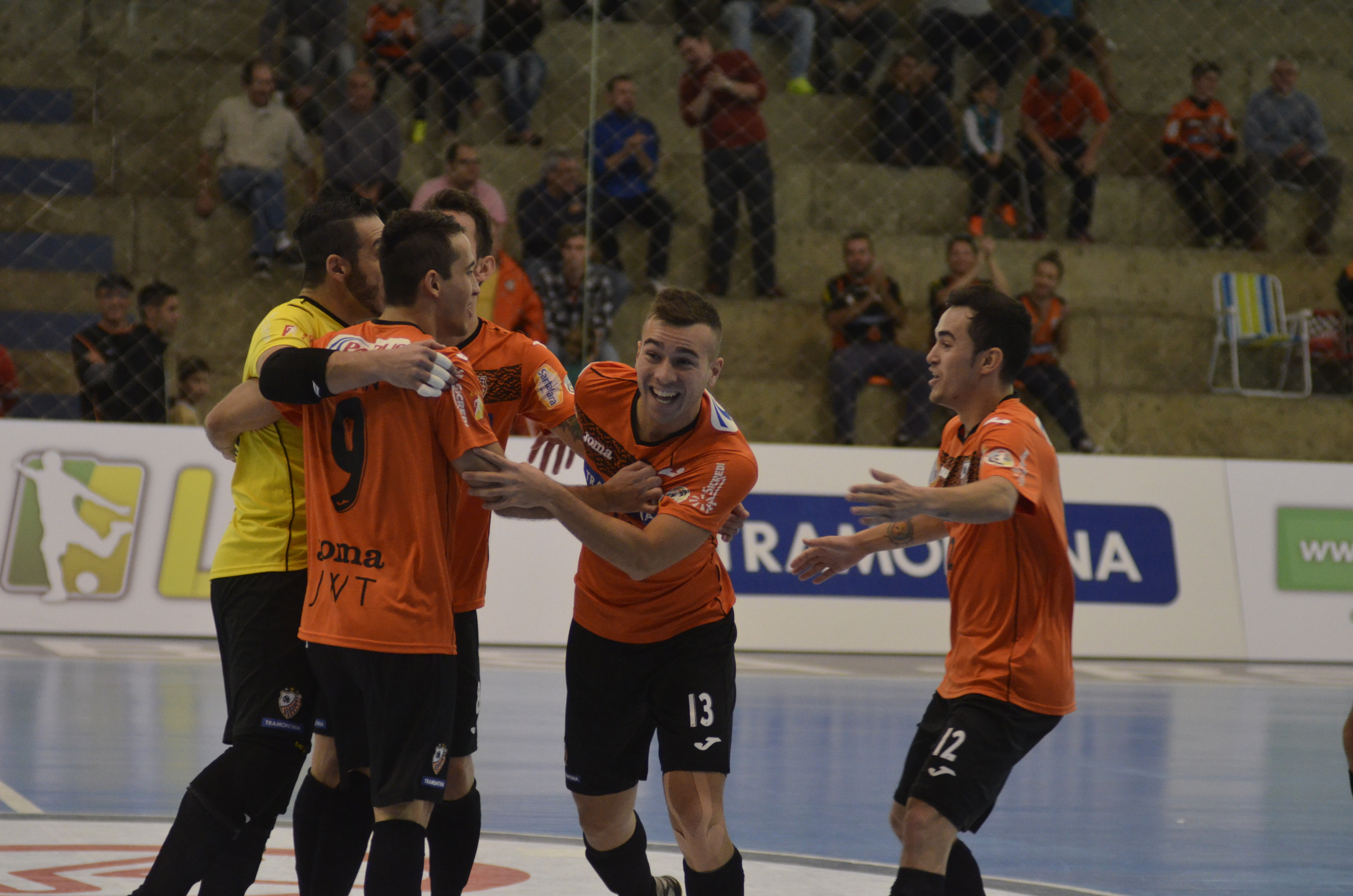 RS - FUTSAL/LIGA NACIONAL DE FUTSAL 2015 - ESPORTES - Lance da partida entre ACBF x Intelli disputada na tarde de sábado 05/05, no Centro Municipal de Eventos Sérgio Luiz Guerra, valida pela Liga Nacional de Futsal 2015. FOTO: GUILHERME KALSING